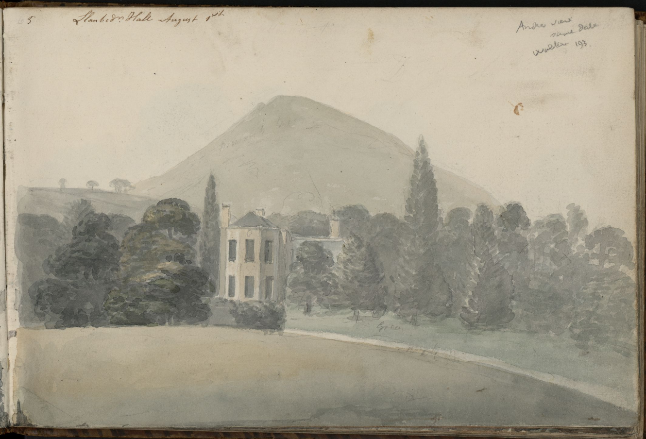 Sketches in north Wales by Moses Griffith. Drawing volume collection DV 27 (8vo)